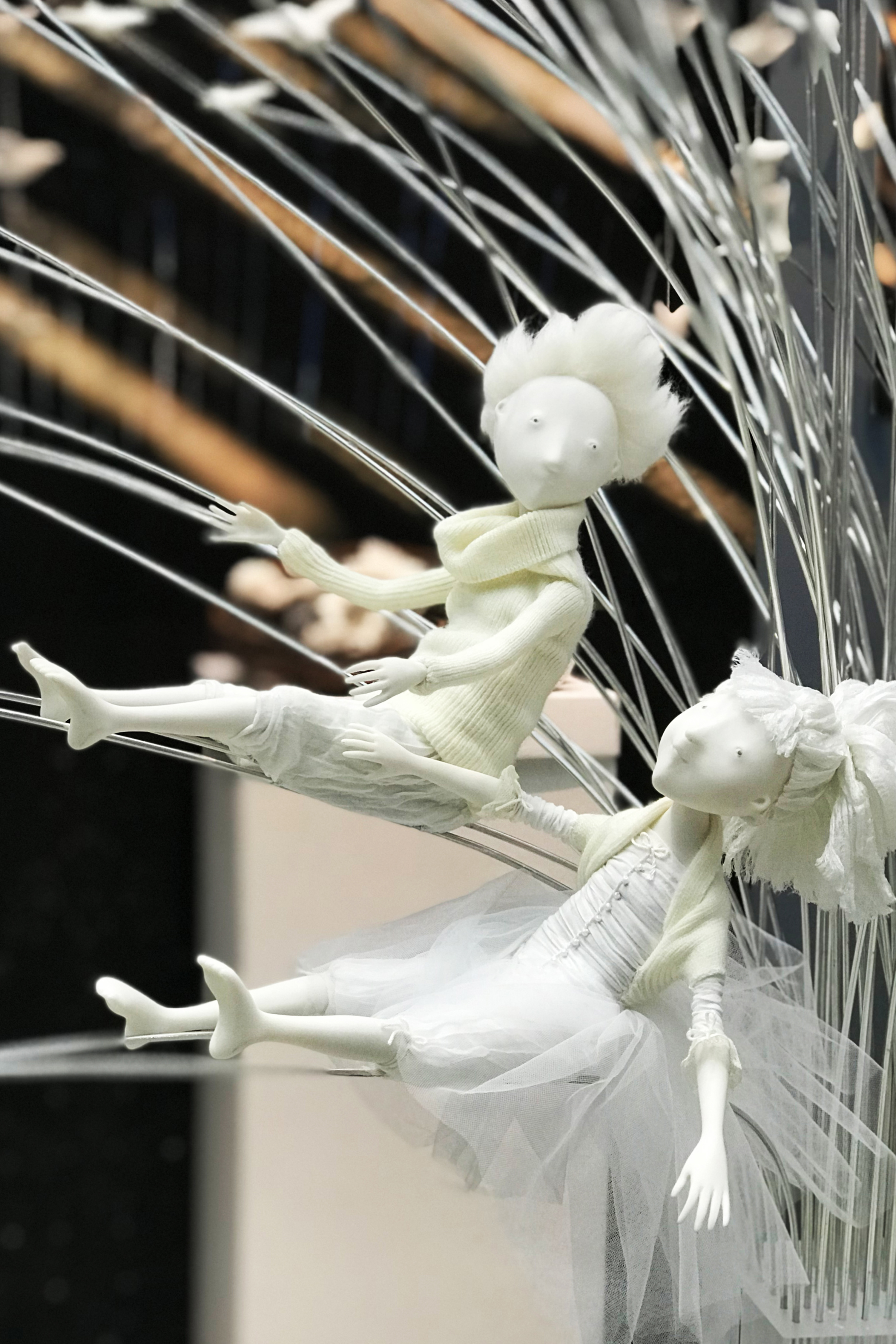 INTRO Project,exhibited in Moscow,Gostiniy Dvor 2017